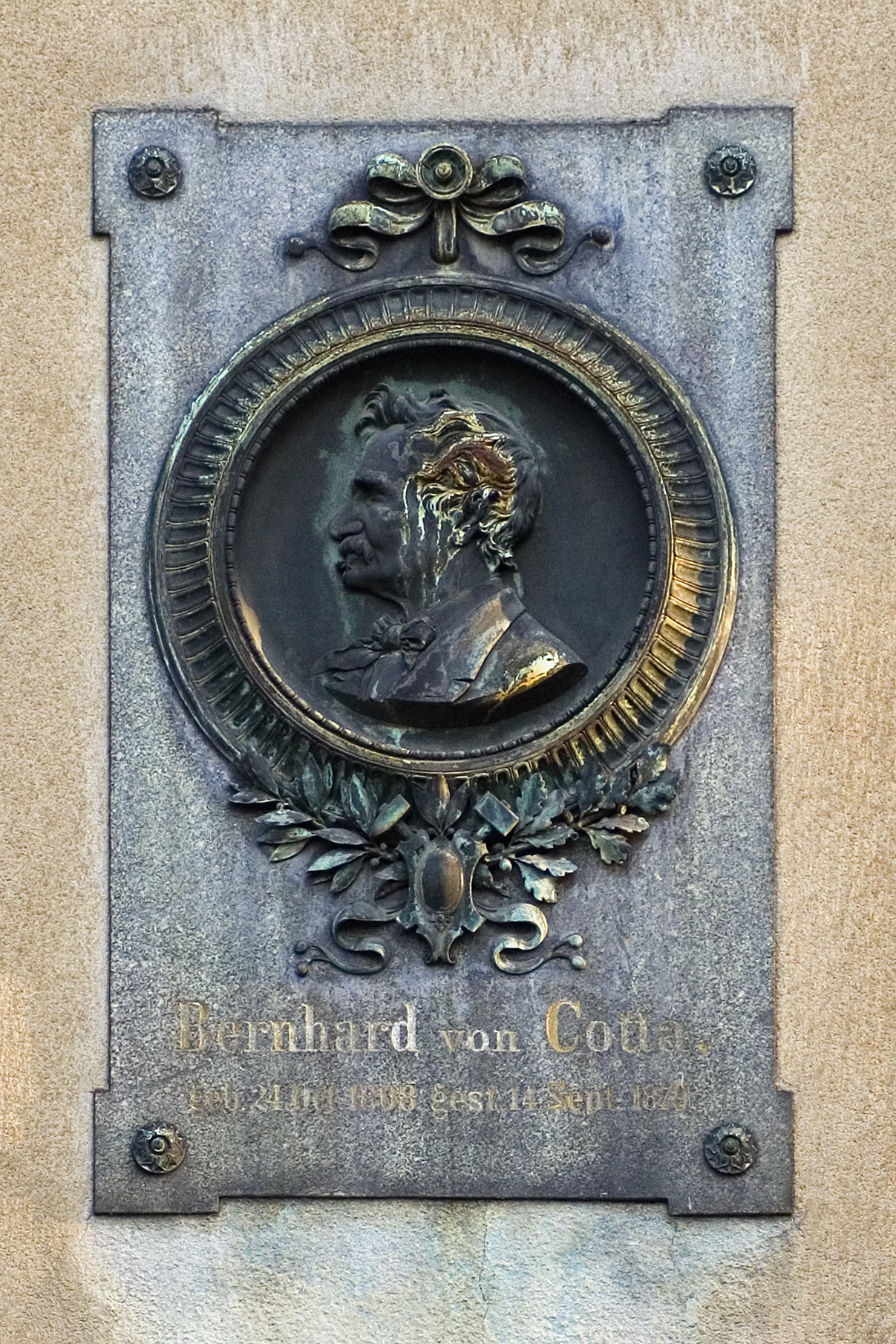 Bernhard von Cotta, plaque on his residence in Freiberg, Beethovenstraße